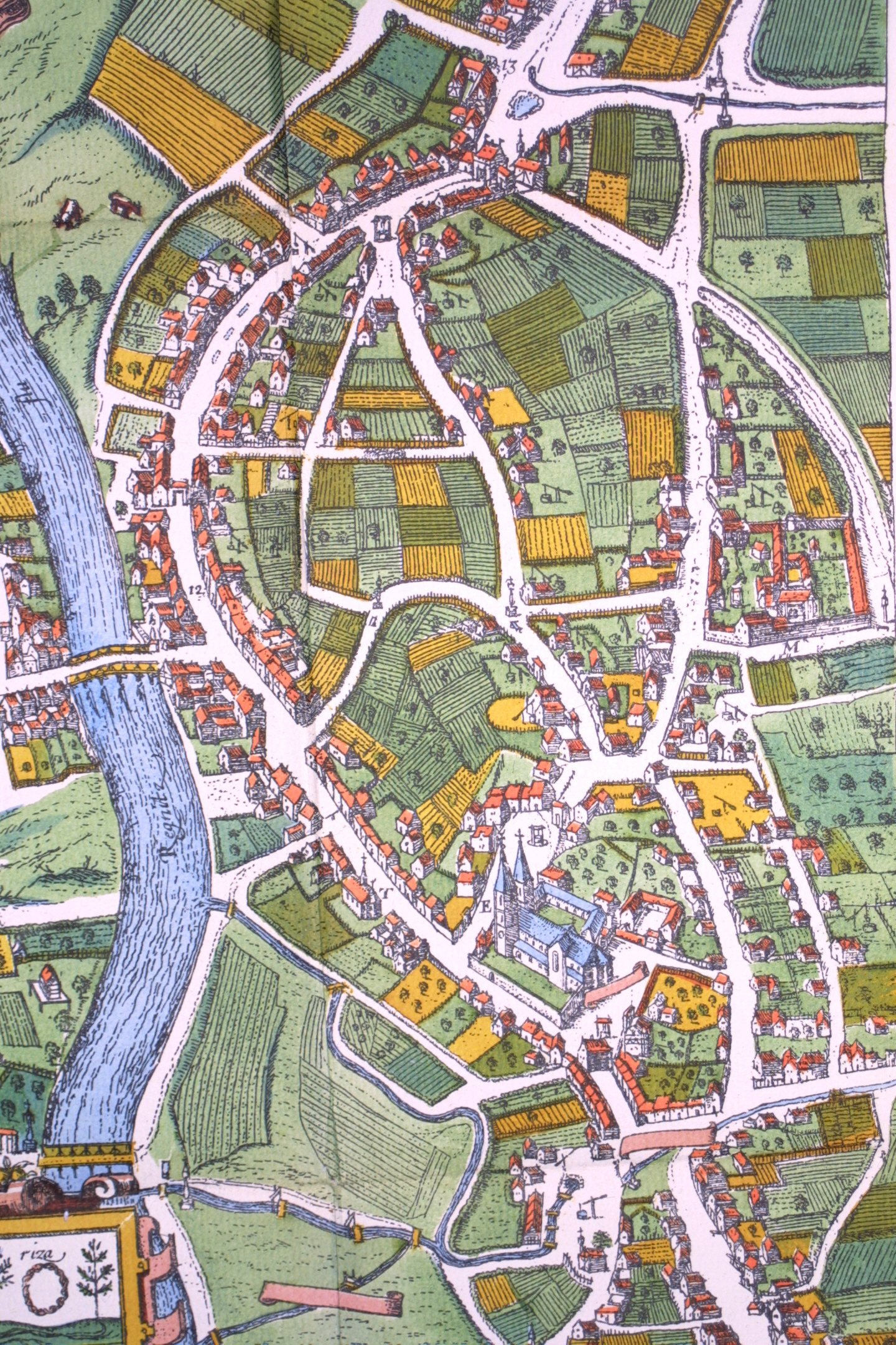 historical map of the German town of Bamberg by Georg Braun and Franz Hogenberg (between 1572 and 1618)